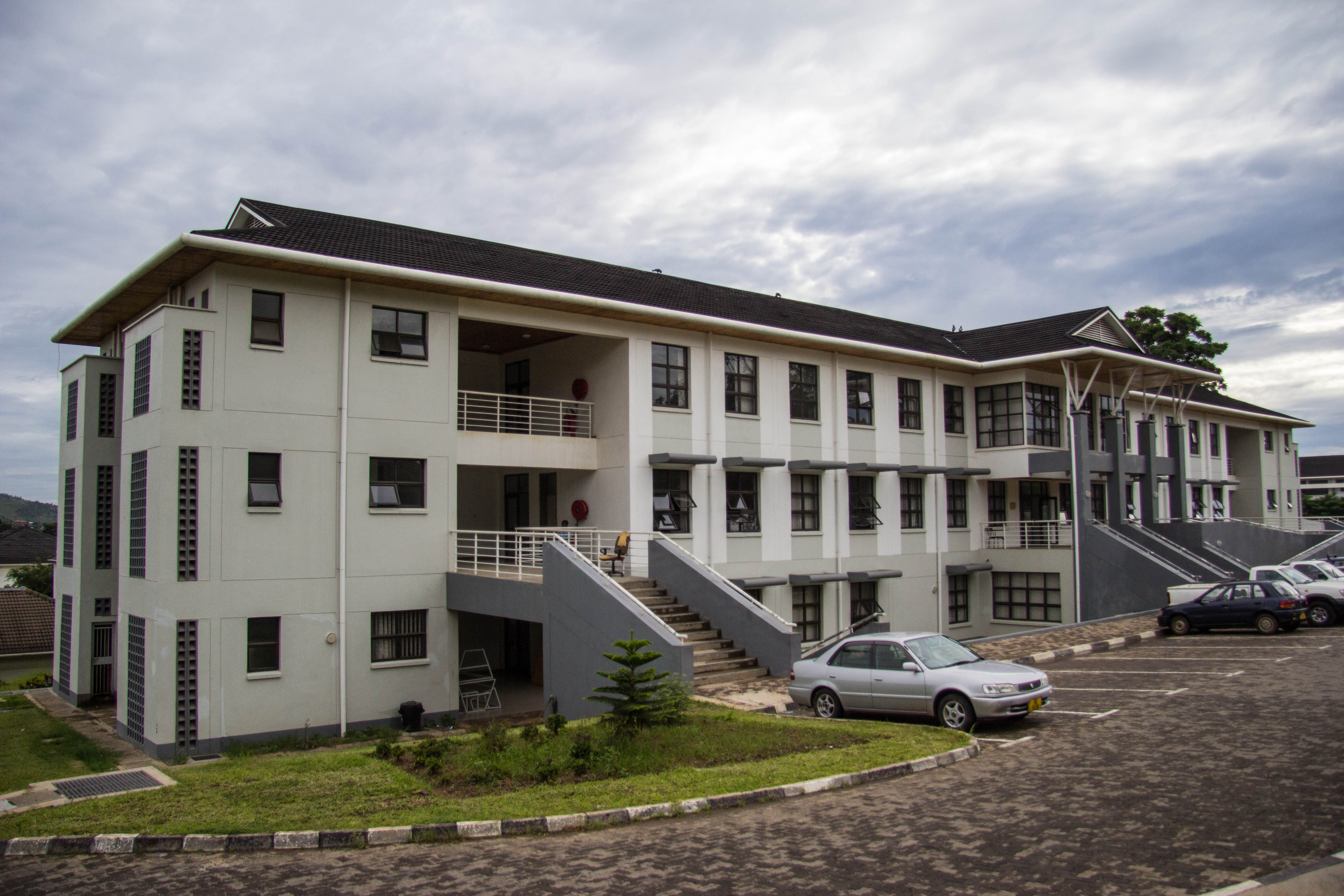 University of Malawi